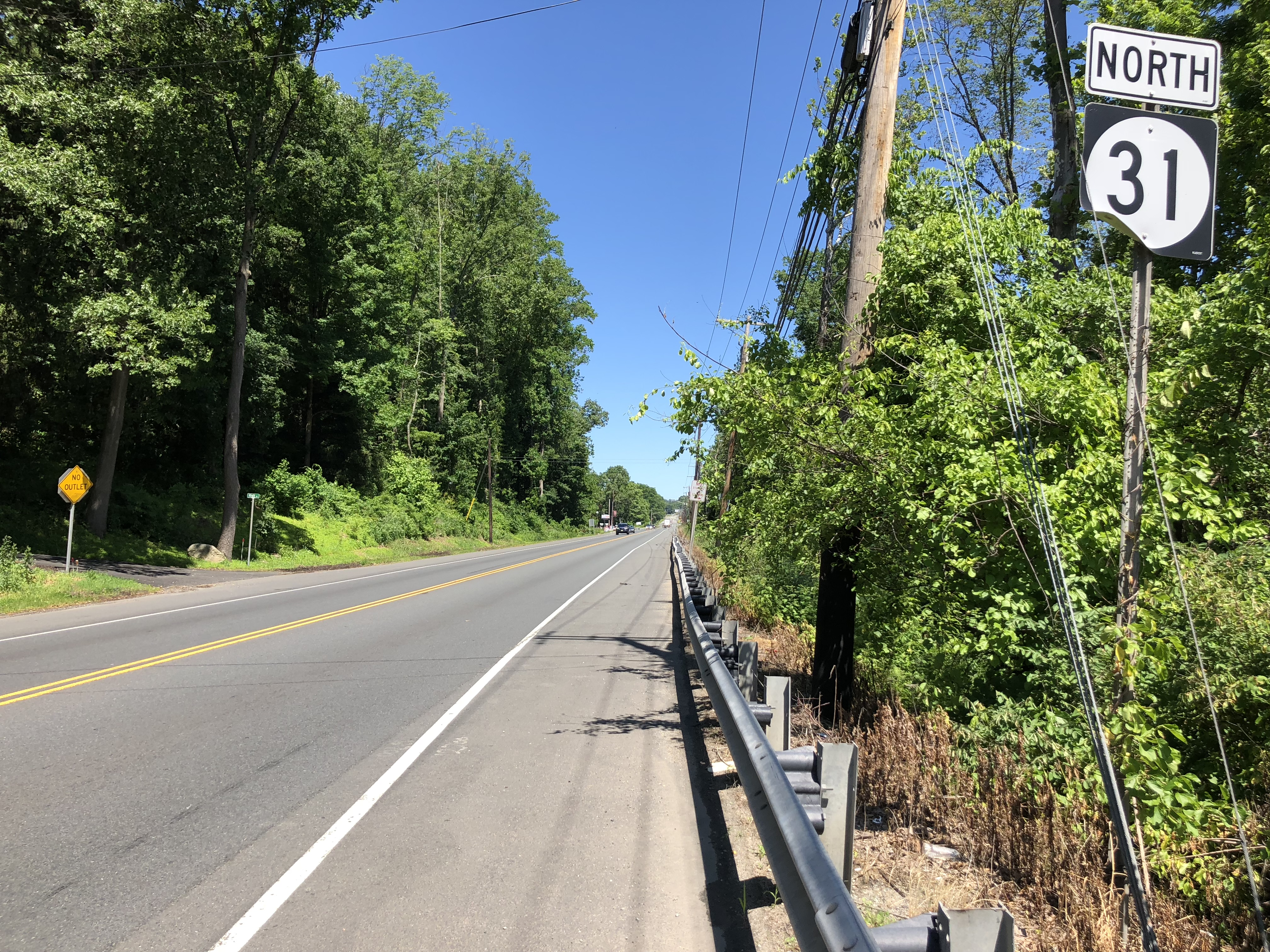 View north along New Jersey State Route 31 at Sanitorium Road/Fountain Grove Road in Glen Gardner, Hunterdon County, New Jersey